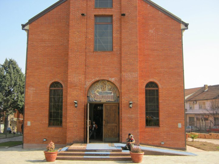 Assumption of Our Lady Church Strumica